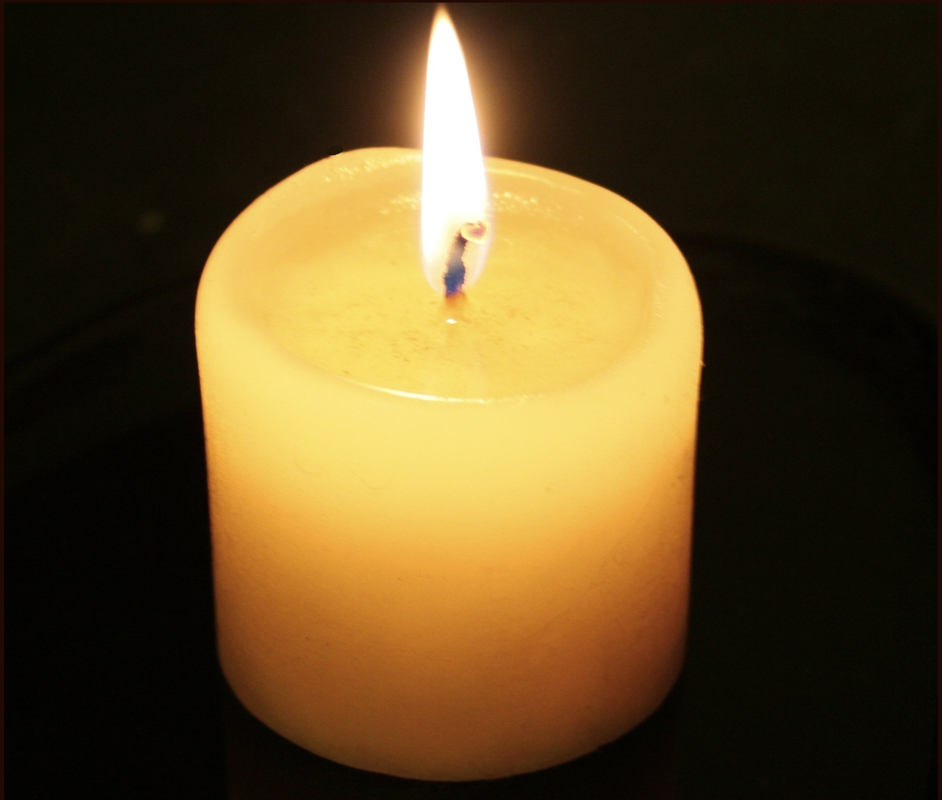 Photograph of a candle - version without reflection